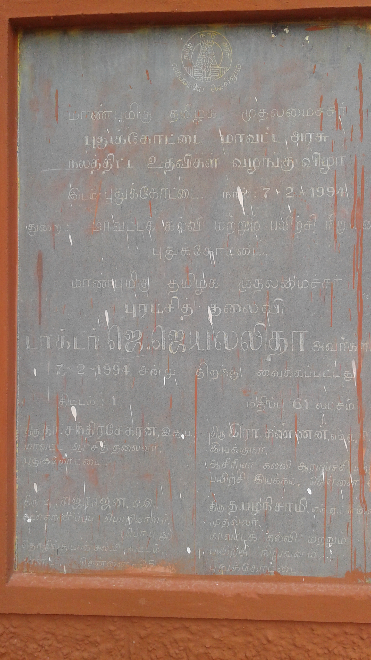 DIET தொடங்கப்பட்ட கல்வெட்டு சான்று